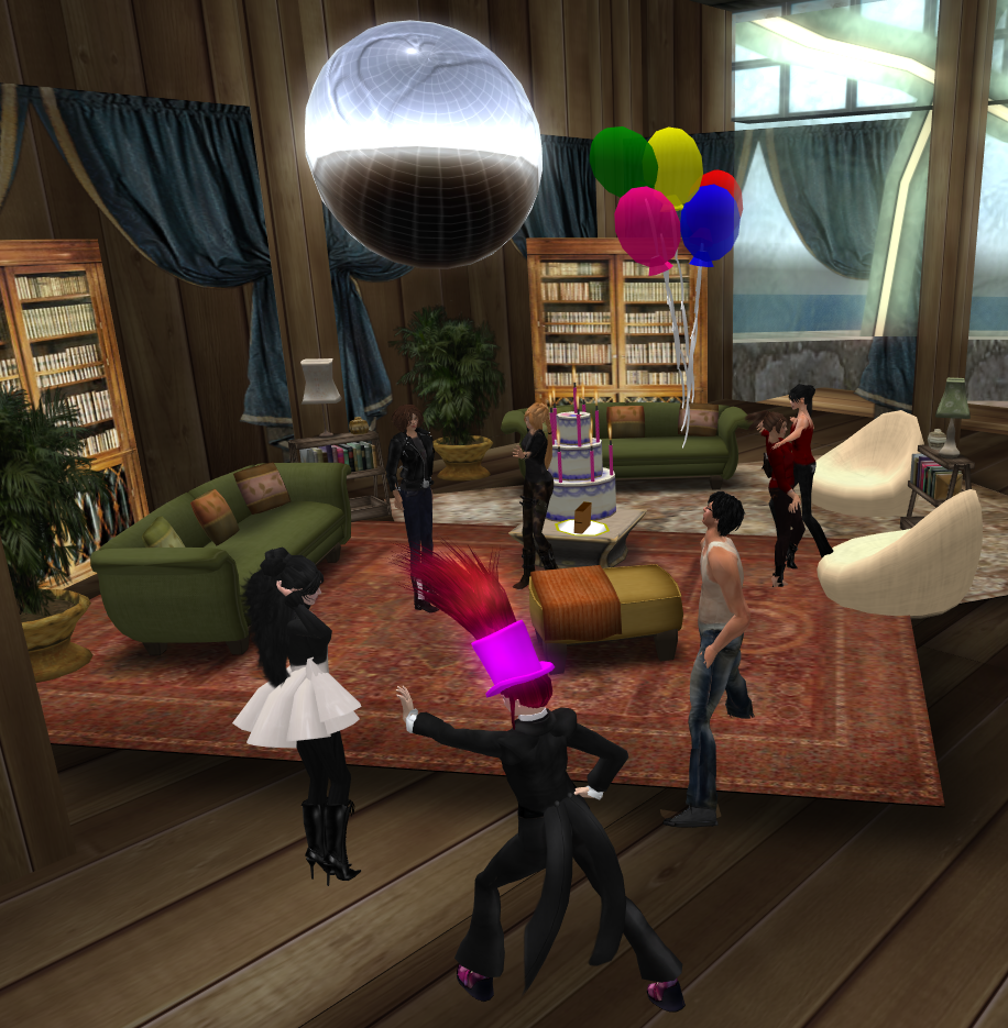 Virtual place for meeting